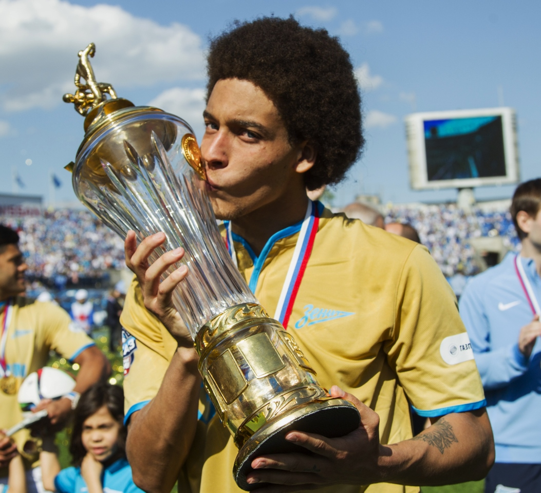 30.05.2015. Россия, Санкт-Петербург, стадион «Петровский». СОГАЗ-Чемпионат России 2014/2015, 30 тур, «Зенит» — «Локомотив». Церемония награждения команды «Зенит» золотыми медалями и кубком Чемпиона России.